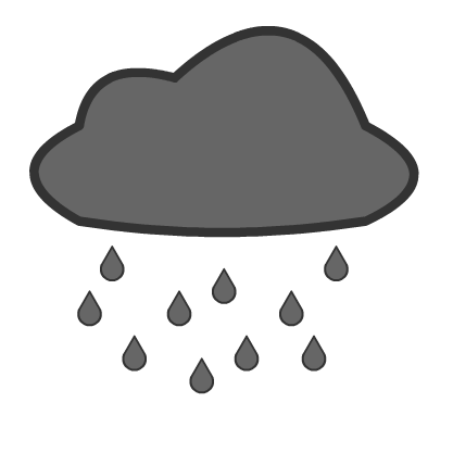 Burniță, nebulozitate